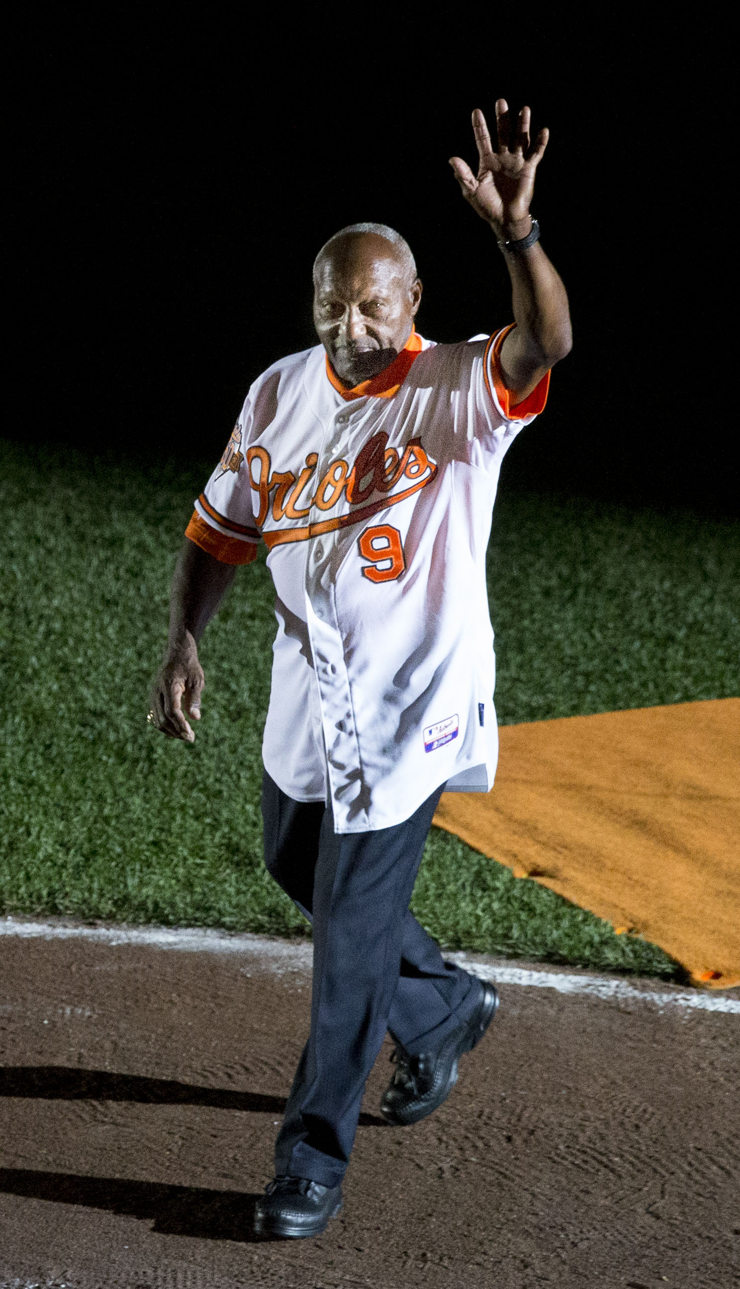 Don Buford at Camden Yards in 2014